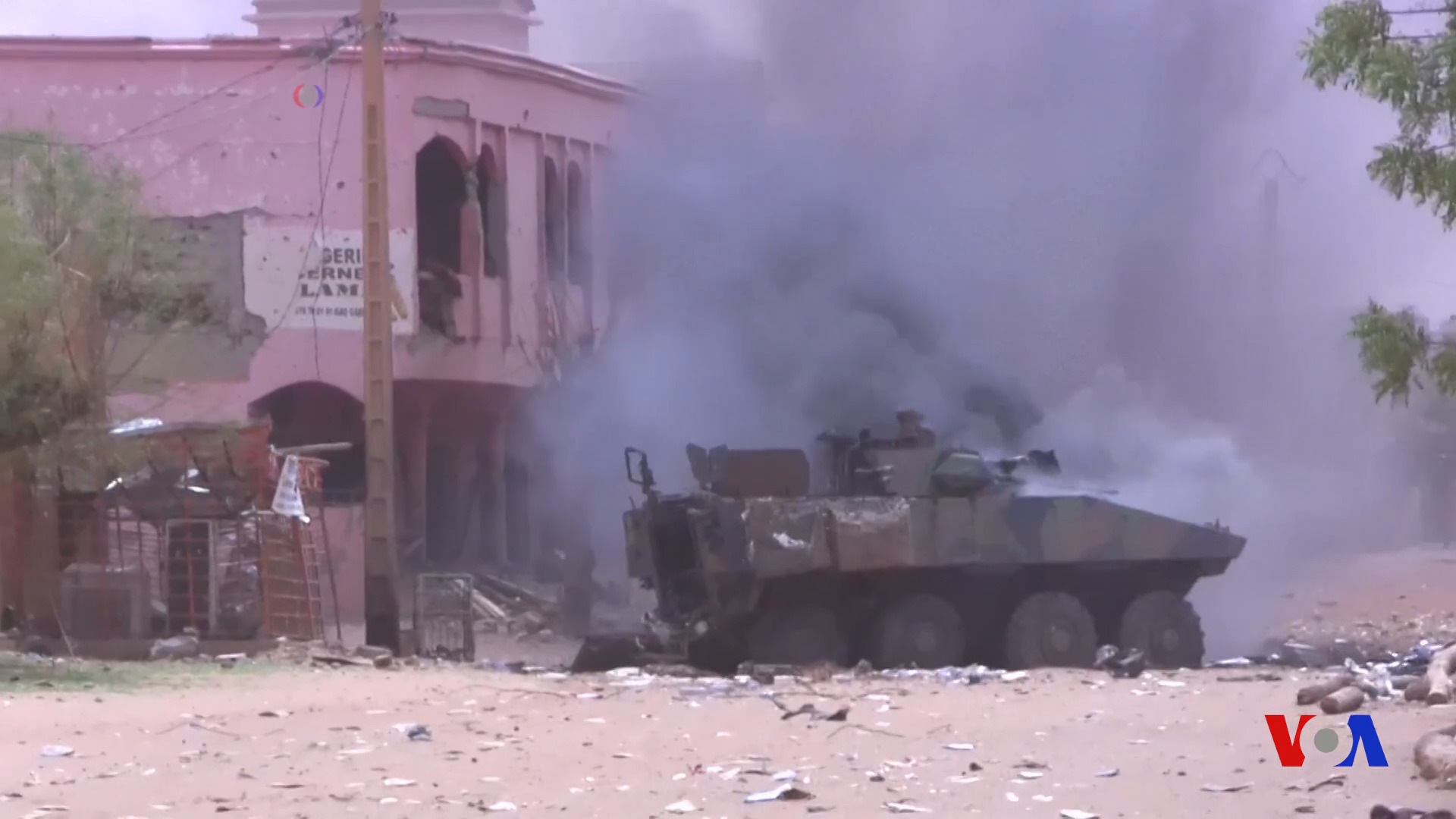 Burning VBCI in Gao, Mali, after a terrorist attack on July 1st, 2018